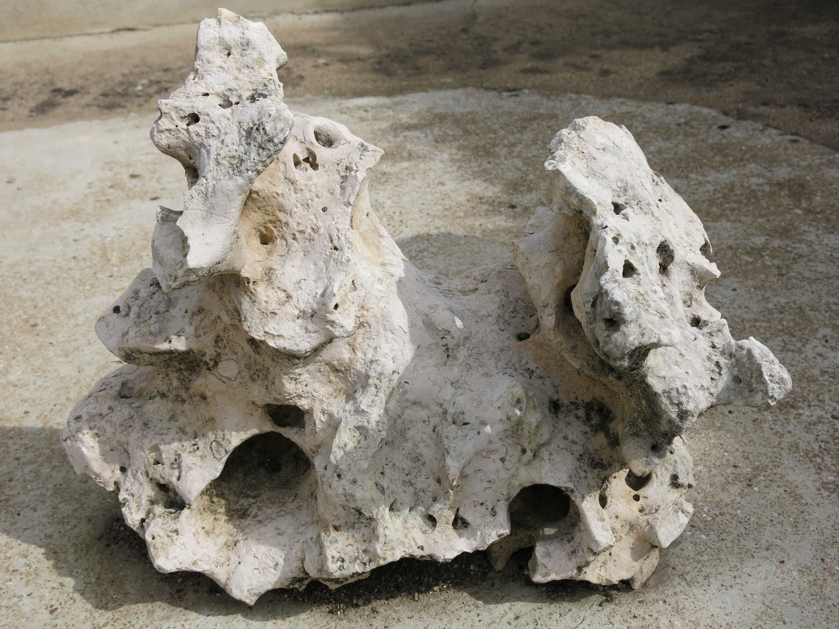 Jura hole stone (Jura mountains, France). Length : circa 25 cm.